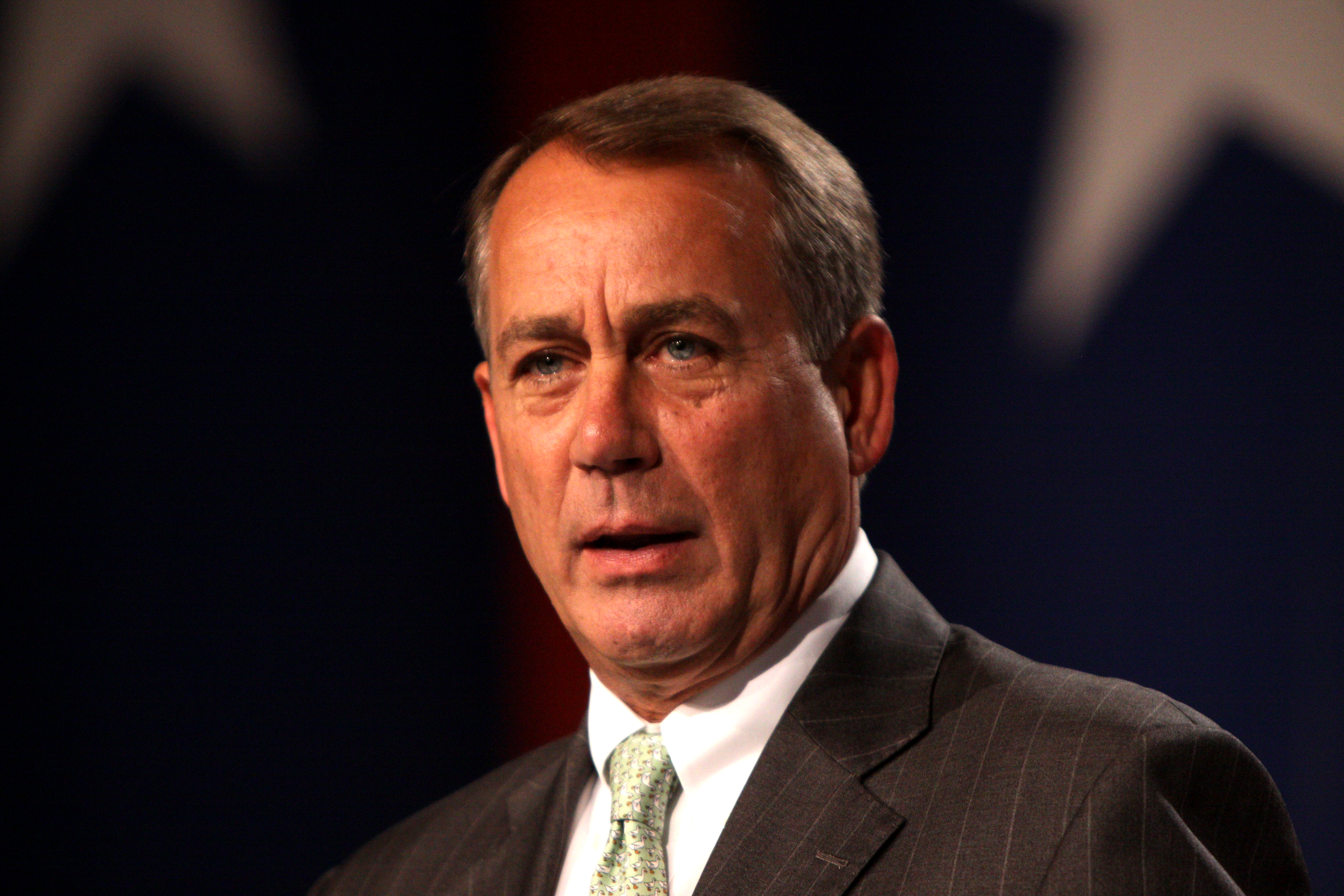 Speaker of the House John Boehner speaking at the Values Voter Summit in Washington, DC.